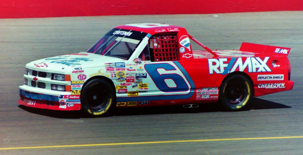 Rick Carelli drives the No. 6 Re/MAX Chevrolet in 1997.